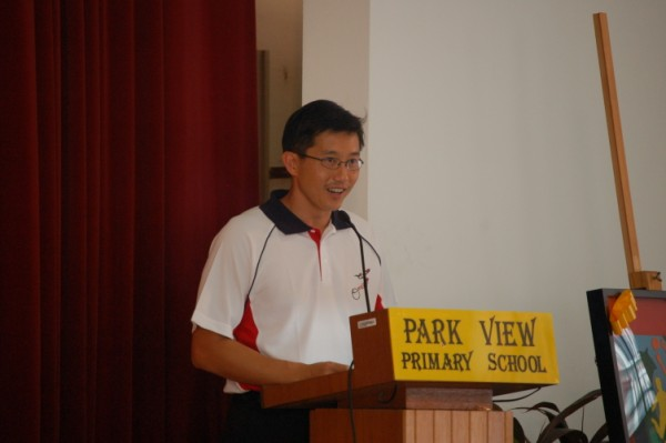 Teo Ser Luck, a Member of the Parliament of Singapore and Permanent Secretary for the Ministry of Community Development, Youth and Sports and Ministry of Transport, delivering a speech at Park View Primary School in Singapore.